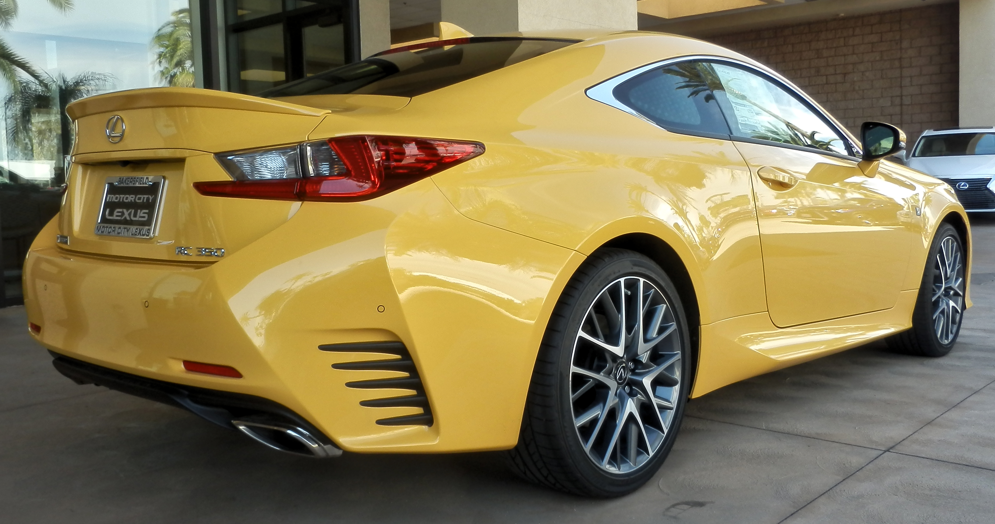 Lexus RC 350 in Bakersfield